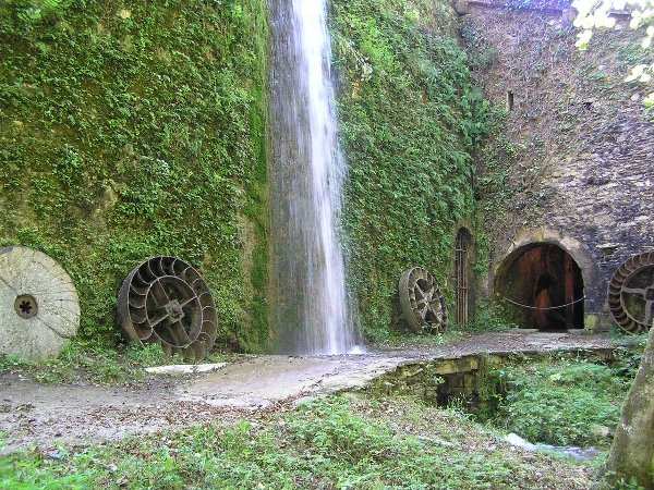 Agorregi Forge, near Aia, Gipuzkoa Province. Photo taken by Bilbao06, September 2006